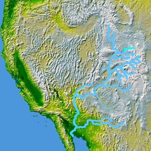 Little Snake River in Colorado ©2004 Matthew Trump